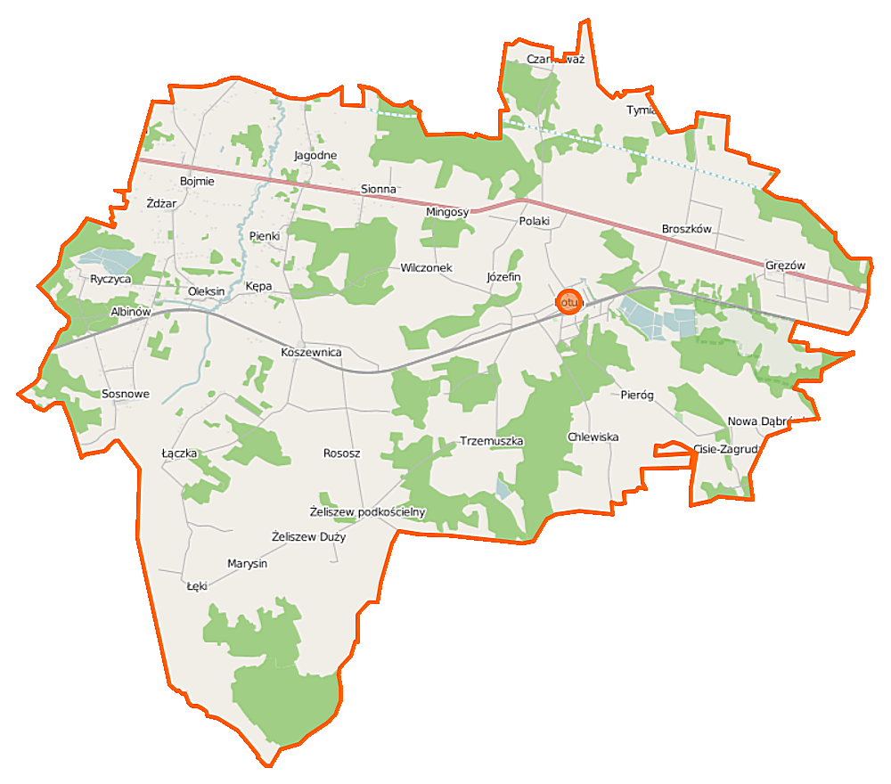 Map of Gmina Kotuń, Poland This map of Kotuń (gmina) was created from OpenStreetMap project data, collected by the community. This map may be incomplete, and may contain errors. Don't rely solely on it for navigation. Border coordinates52.235621.8944←↕→22.169452.0873